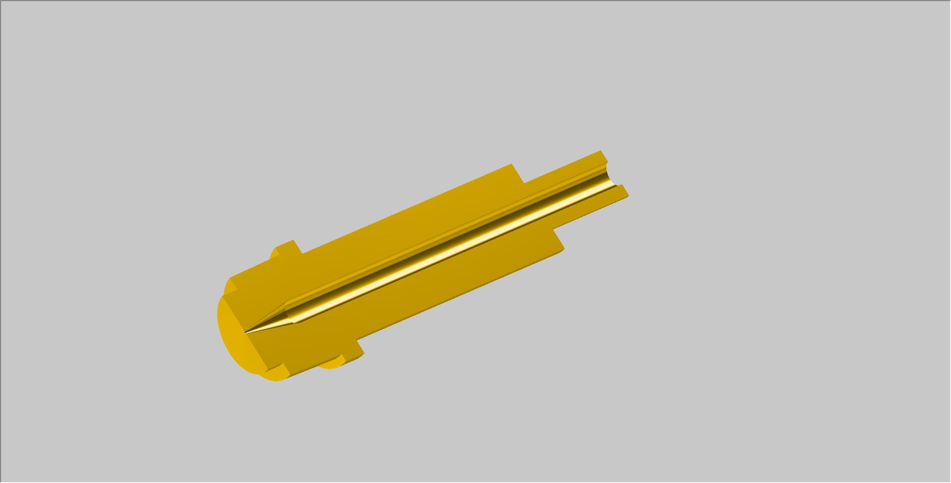 Howtek Style single nozzle Tefzel operates in a 125C environment and is as soft as hard butter. Squeeze mode may not an accurate description. Fluid is expelled by sound pressure waves in the fluid. The piezo produces a sound wave through the wall of the nozzle tube.